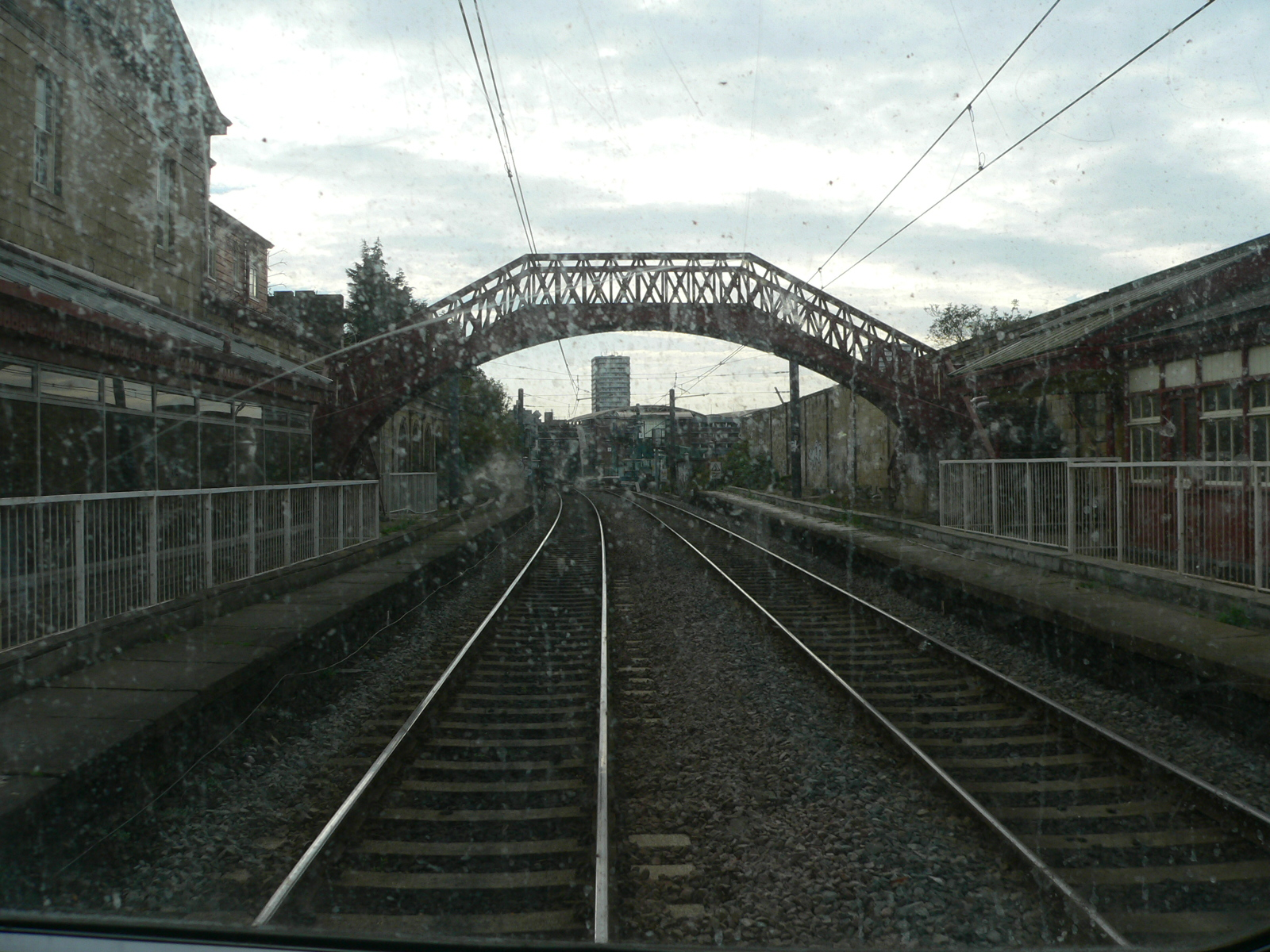 The view through the rather grubby front window of Tyne and Wear Metro train 4089 as it travels through the platforms at Monkwearmouth station - now used as the Monkwearmouth Station Museum. As part of the Metro extension to Sunderland and South Hylton in 2002, a new station - St Peters - was built a few hundred yards beyond this station (I don't know why Monkwearmouth station was not used).